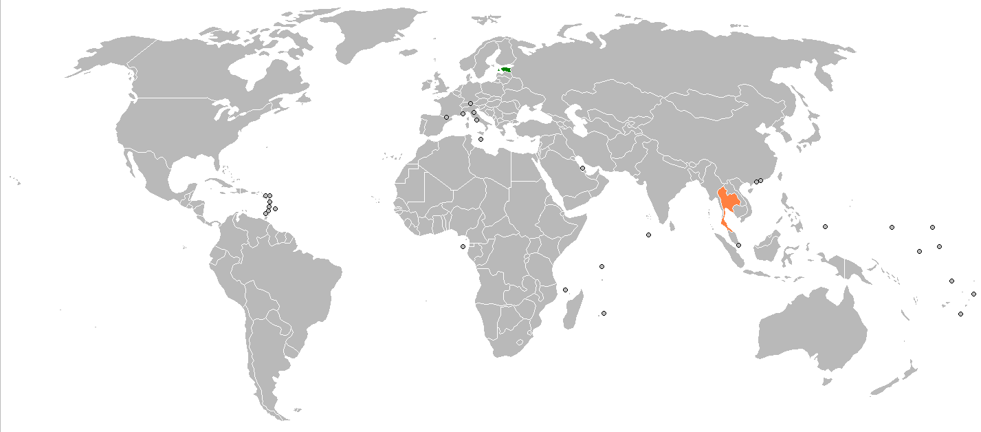 Estonia-Thailand locator map. I made this map out of a licence free blank map of Europe.